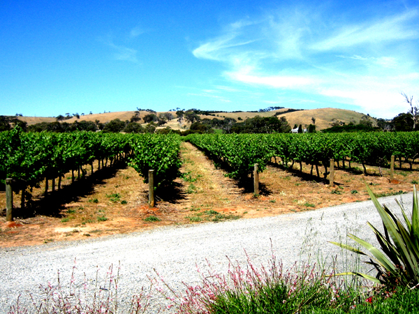 Image of a vineyard in McLaren vale.